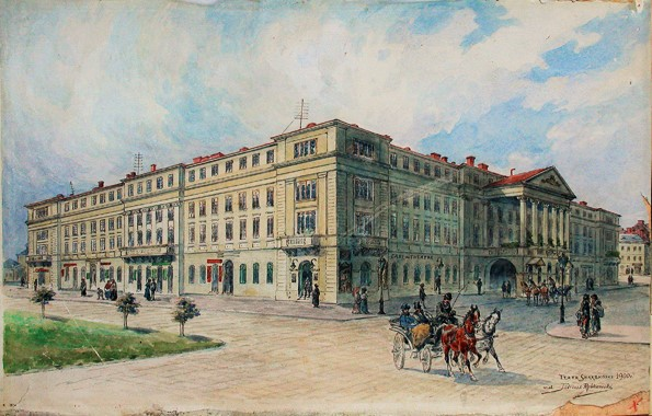 Stanislav Skarbek Theatre in Lviv